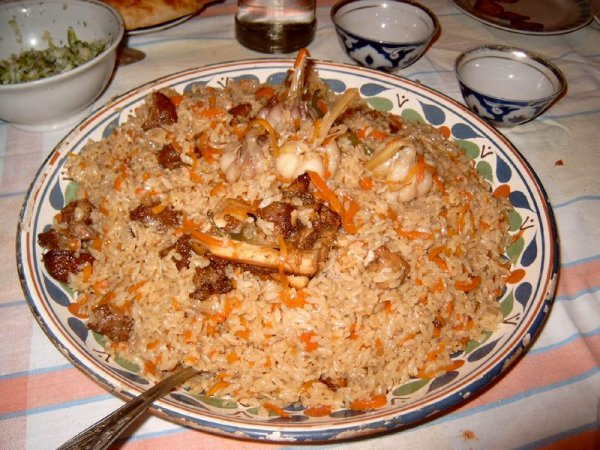 A bowl of plov. Best made with cow tail or baby lamb.